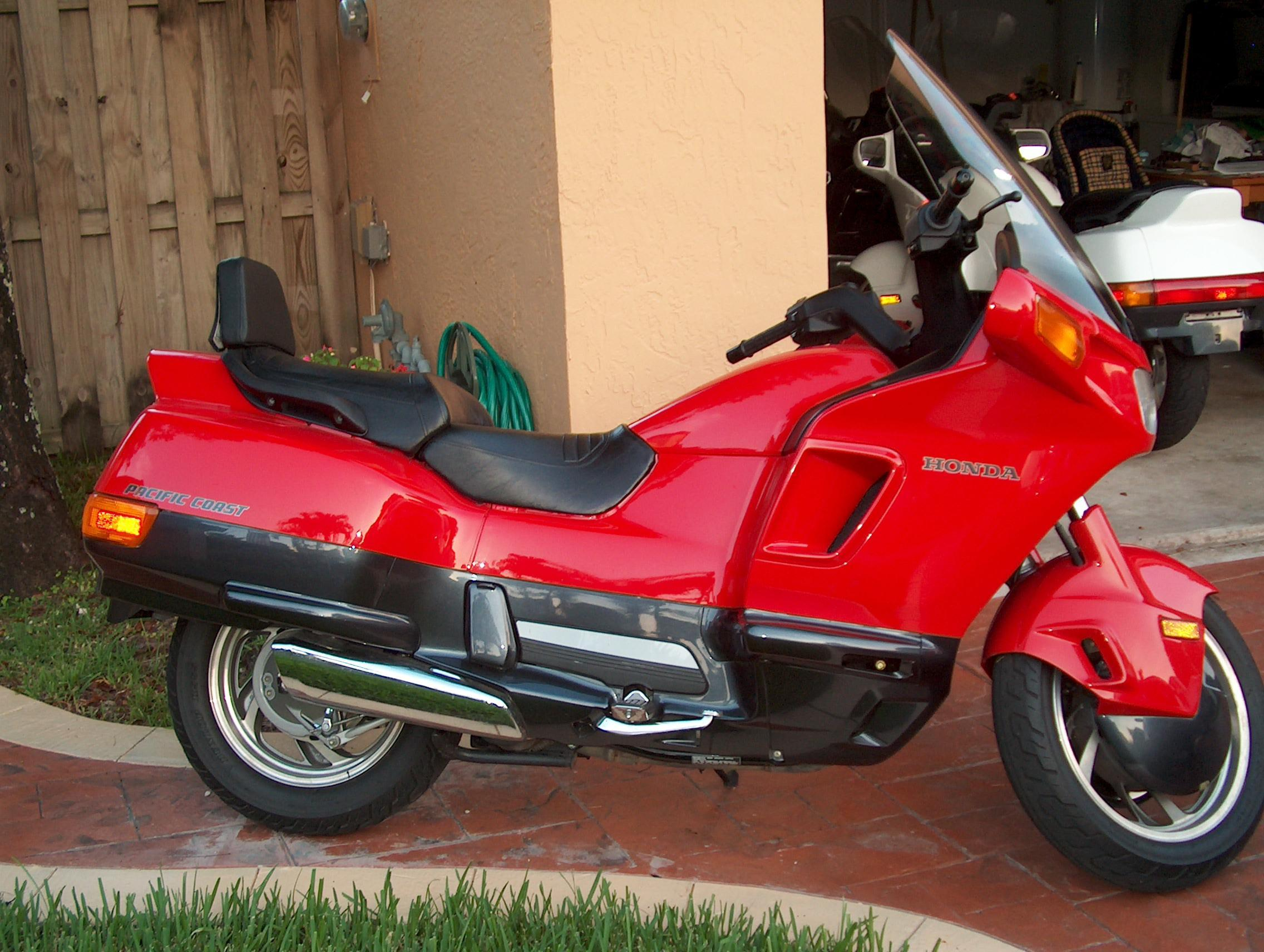 1996 Honda Pacific Coast (with a 1989 in the garage behind)